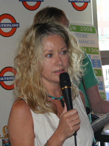 SXSW 2008 - Shelby Lynne performing at Waterloo Records in Austin. Photo by Ron Baker.